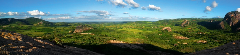 Parque Estadual da Pedra da Boca - Pedra do Lagarto Araruna-PB.jpg